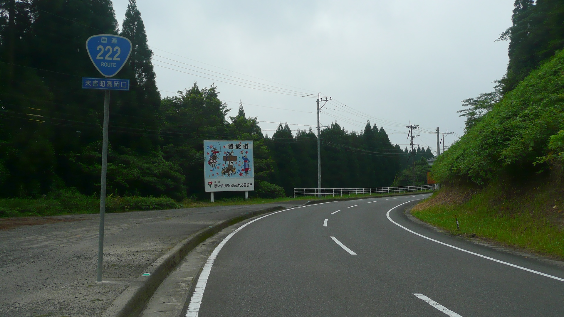 National Route 222 (Sueyoshi, Soo City, Kagoshima, Japan)